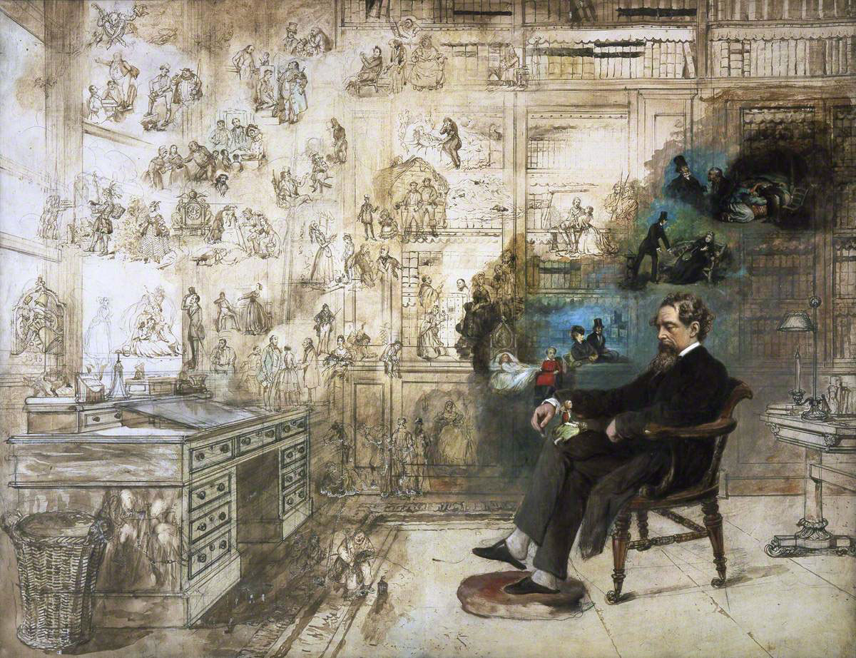 Dickens's Dream." Painted 1875. Donated by the artist's grandson - 1931."